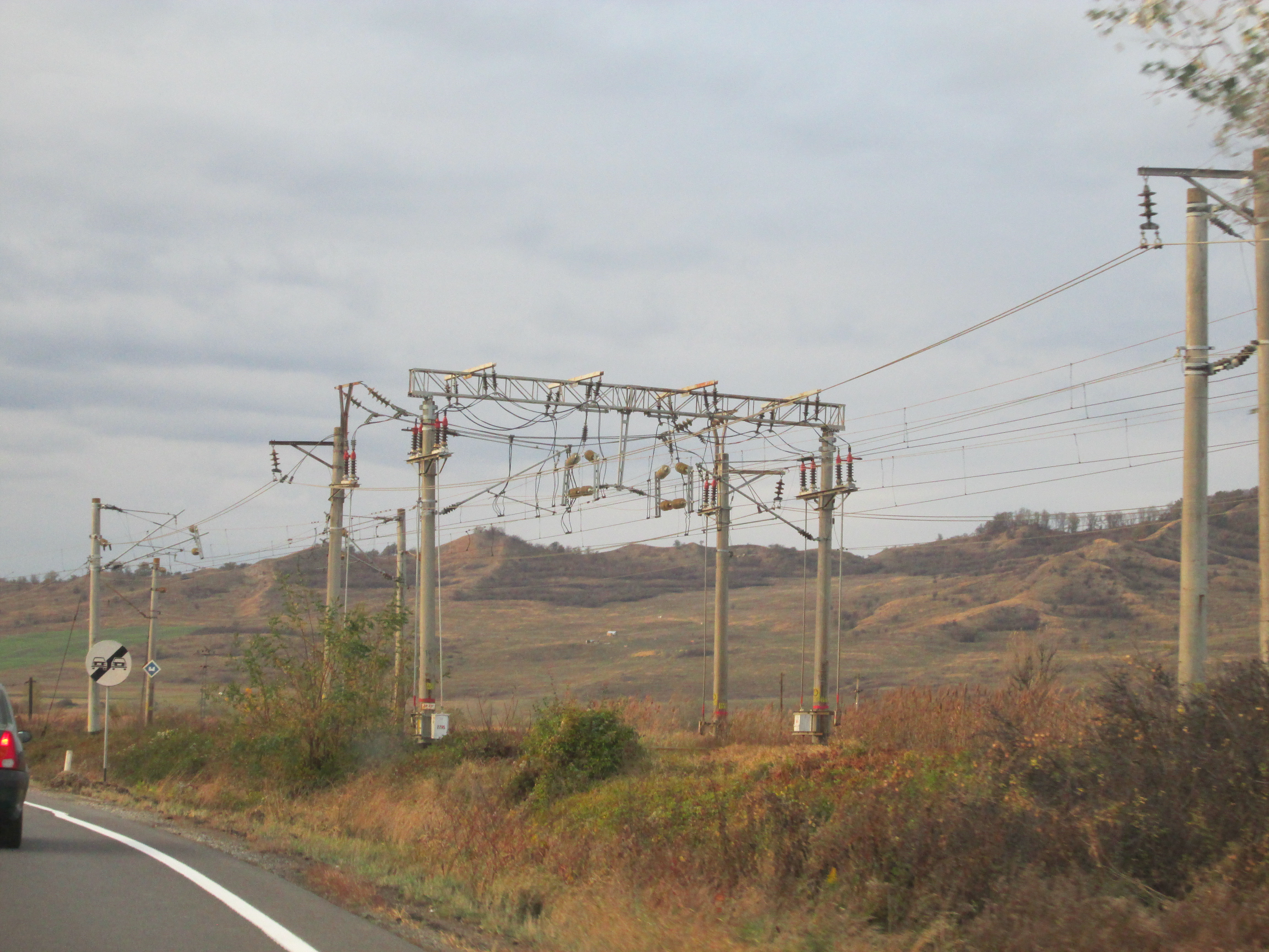 Neutral zone of OHLE (overhead catenary) near Vânători, Sibiu